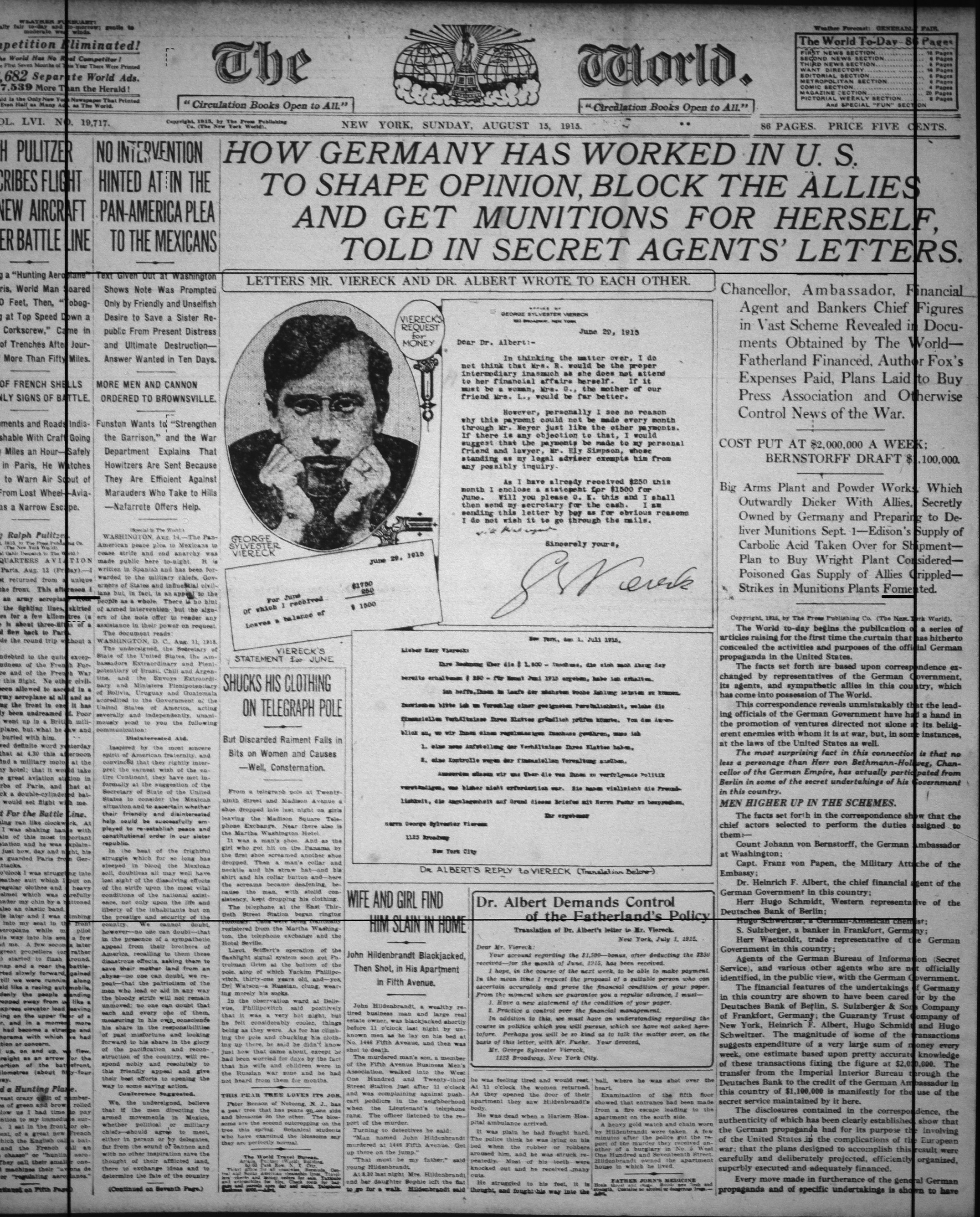 The front page of the New York World from August 15, 1915, which broke the news of a covert German propaganda effort in the United States involving Johann Heinrich von Bernstorff, Heinrich Albert, Hugo Schweitzer and others.